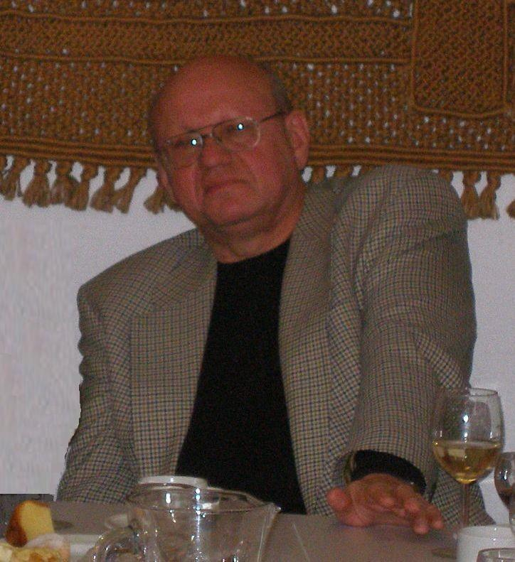 Miloš Rejchrt